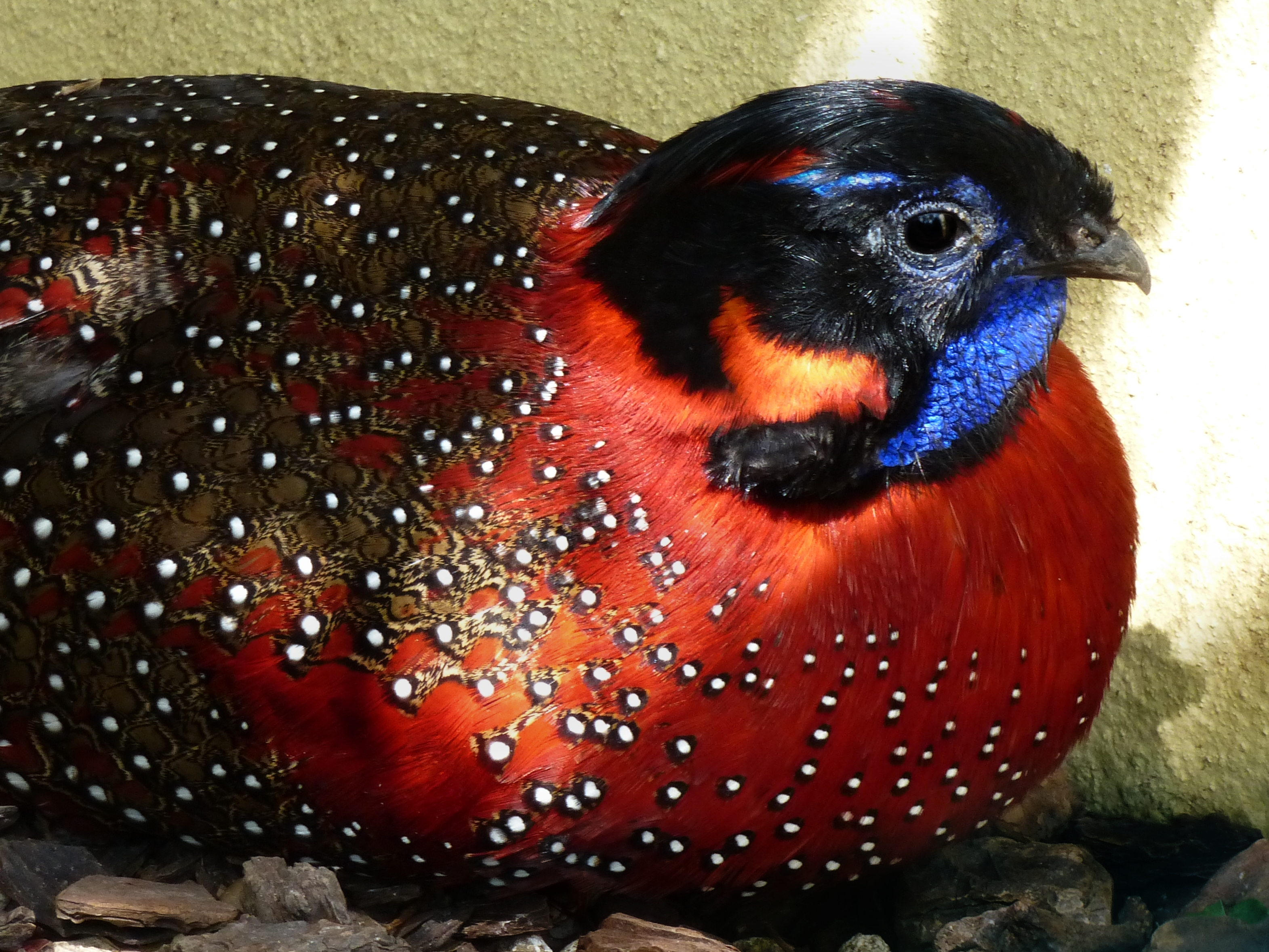 Temminck's Tragopan (Tragopan temminckii) in Lisbon Zoo. Portugal.